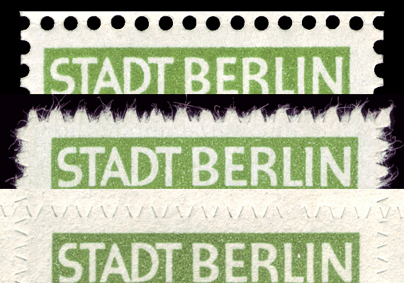 variance comparison between "perforated" and "rouletted" (origins in the gallery) First Day of Issue / Erstausgabetag: 3. August 1945